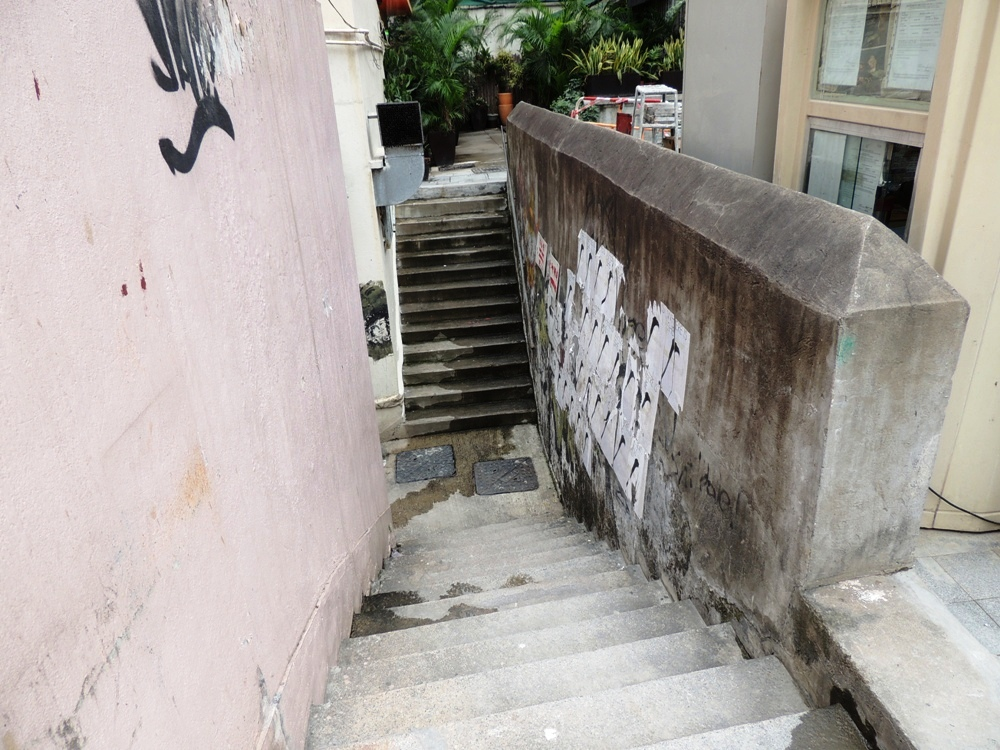 Screen Wall of Pak Tsz Lane